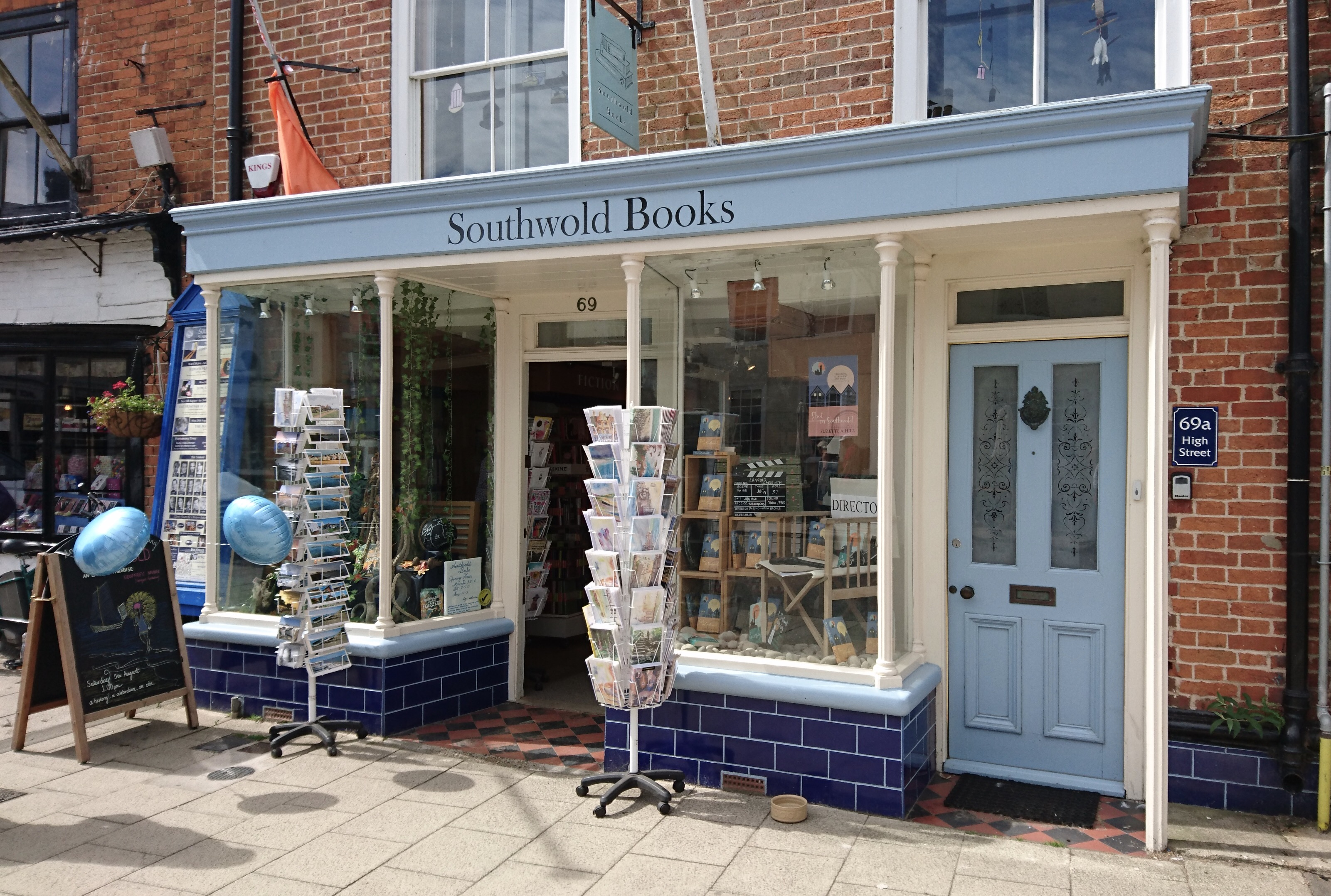 Southwold Books, a bookshop owned by Waterstones in the town of Southwold